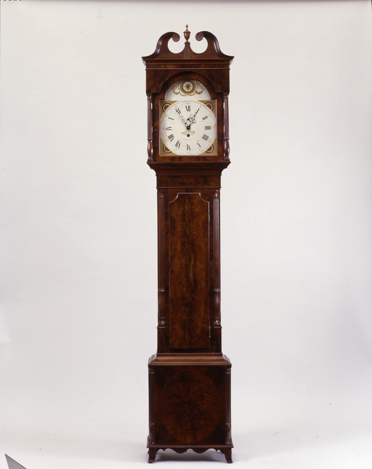 Thomas Voigt’s Astronomical Case Clock (Photo Furnished by the Thomas Jefferson Foundation with written consent for Wikipedia display)